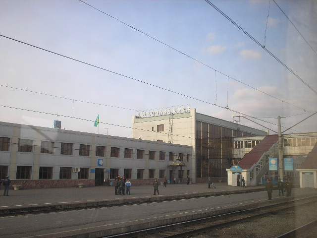 Railway station in Petropavl (Petropavlovsk), North Kazakhstan Province